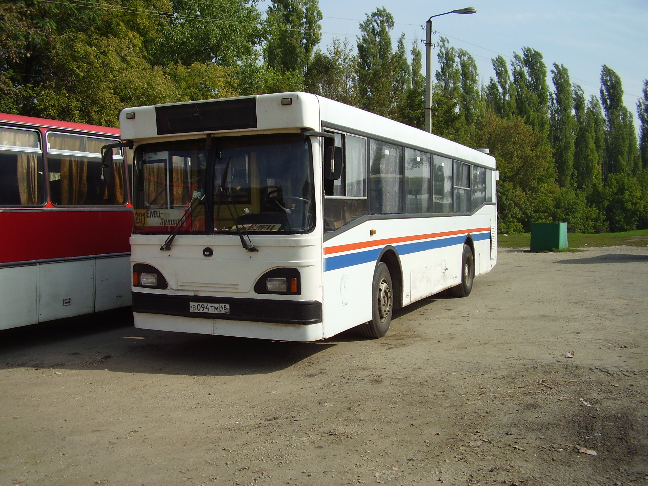 МАРЗ-4219 - One of the fist buses of Michurinsk